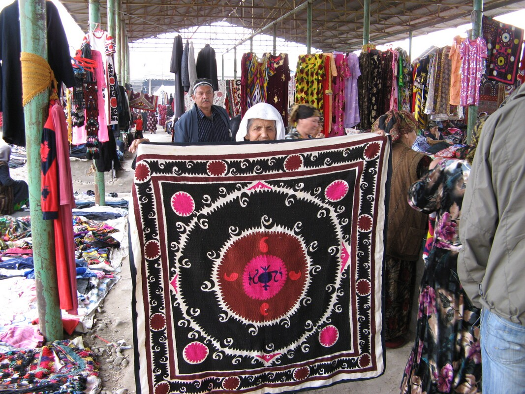 Sunday market in Urgut (Samarqand province)